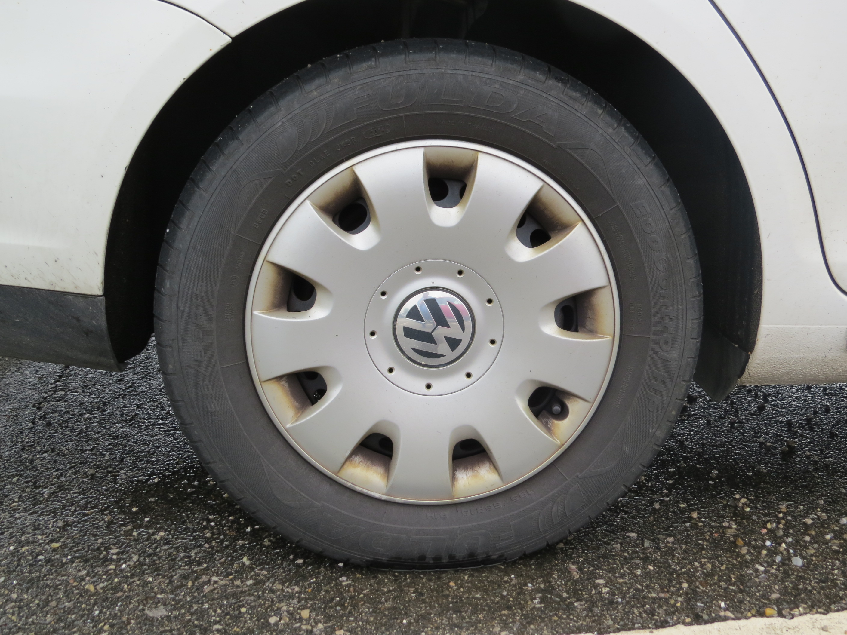 Fulda EcoControl HP 195/65 R 15 91 H tire at Bahnhof Ybbs an der Donau